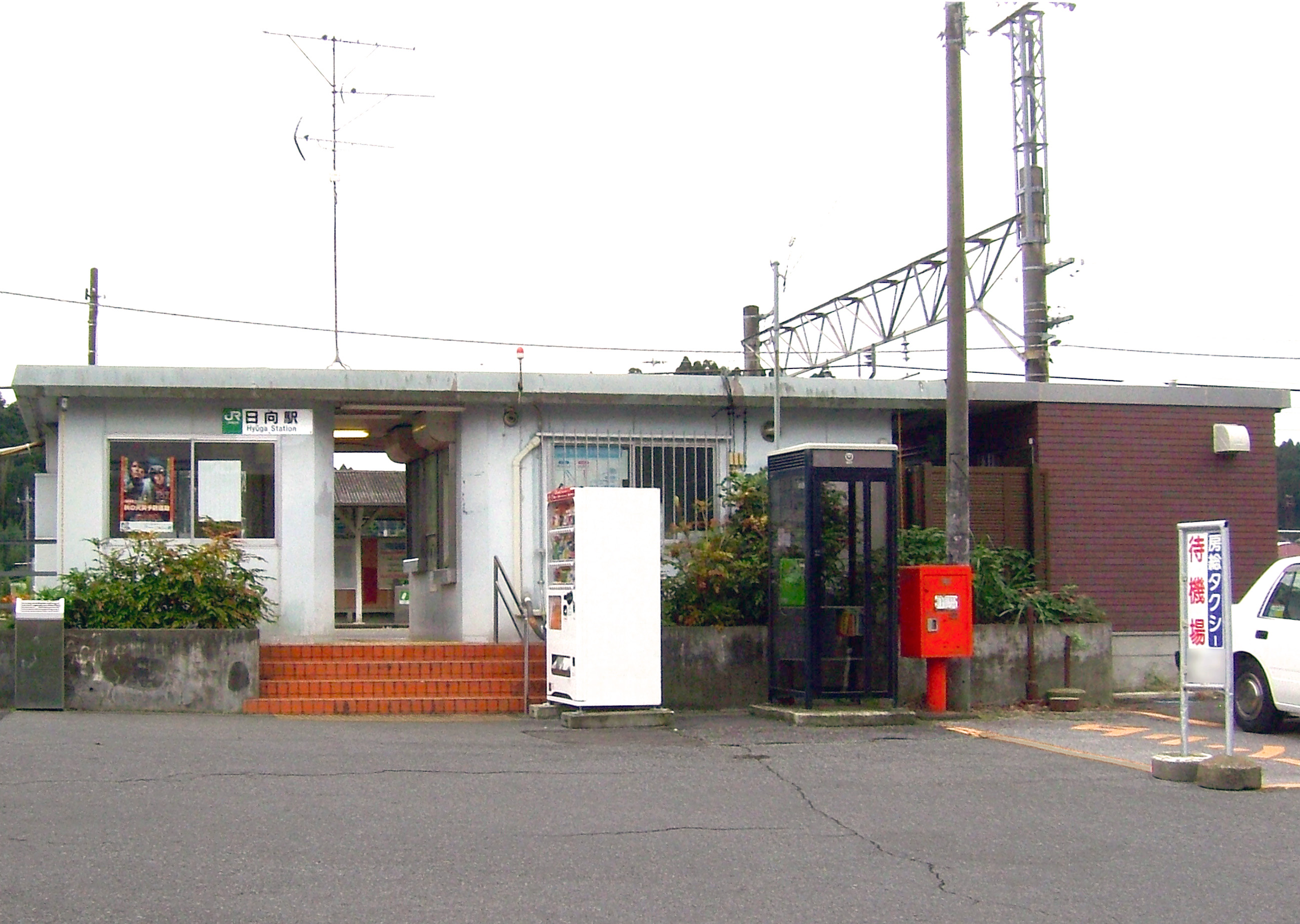 Hyūga Station building (East Japan Railway Sōbu Main Line)